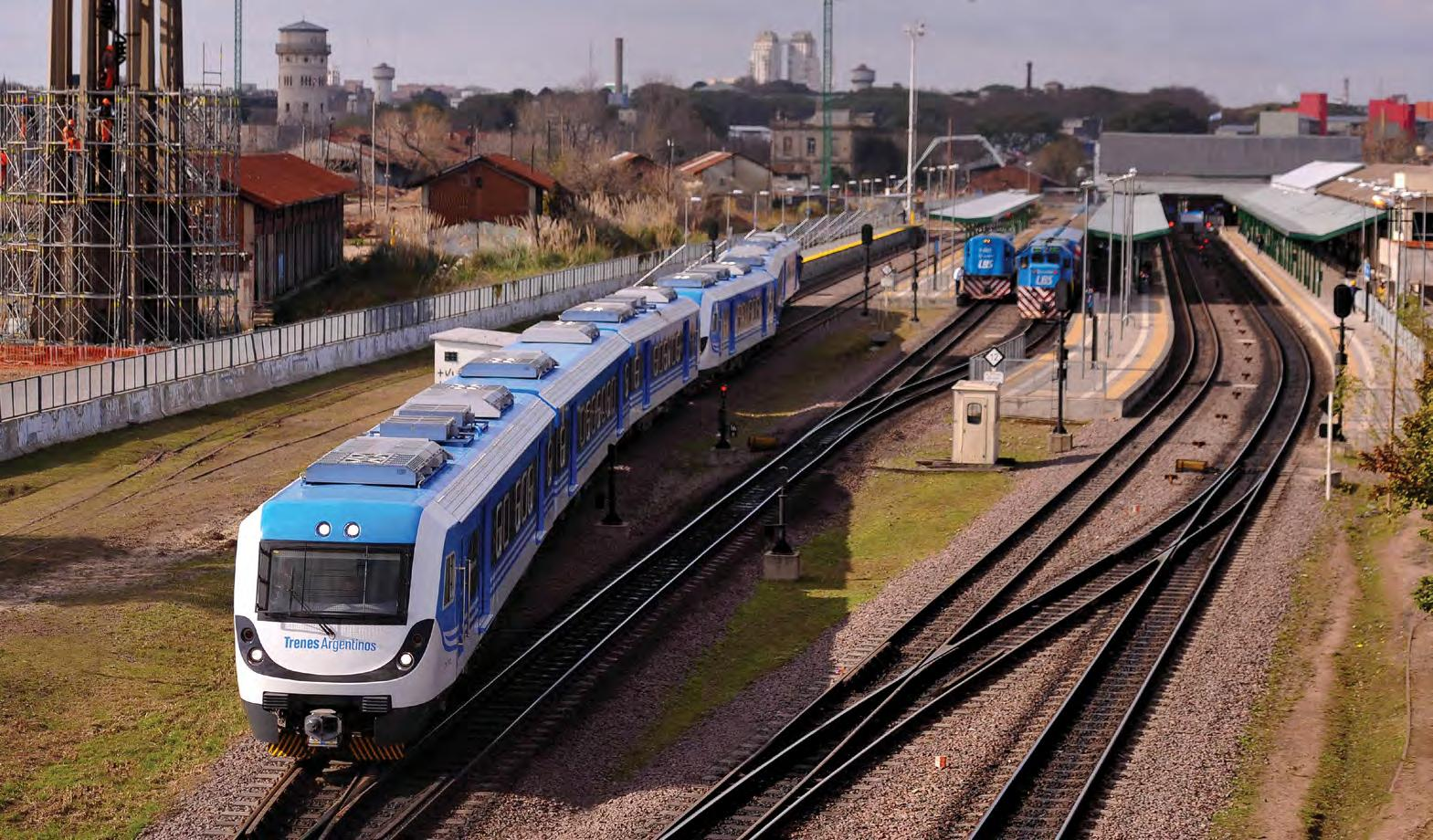 A CNR Diesel Multiple unit on the Belgrano Sur Line in Buenos Aires station.